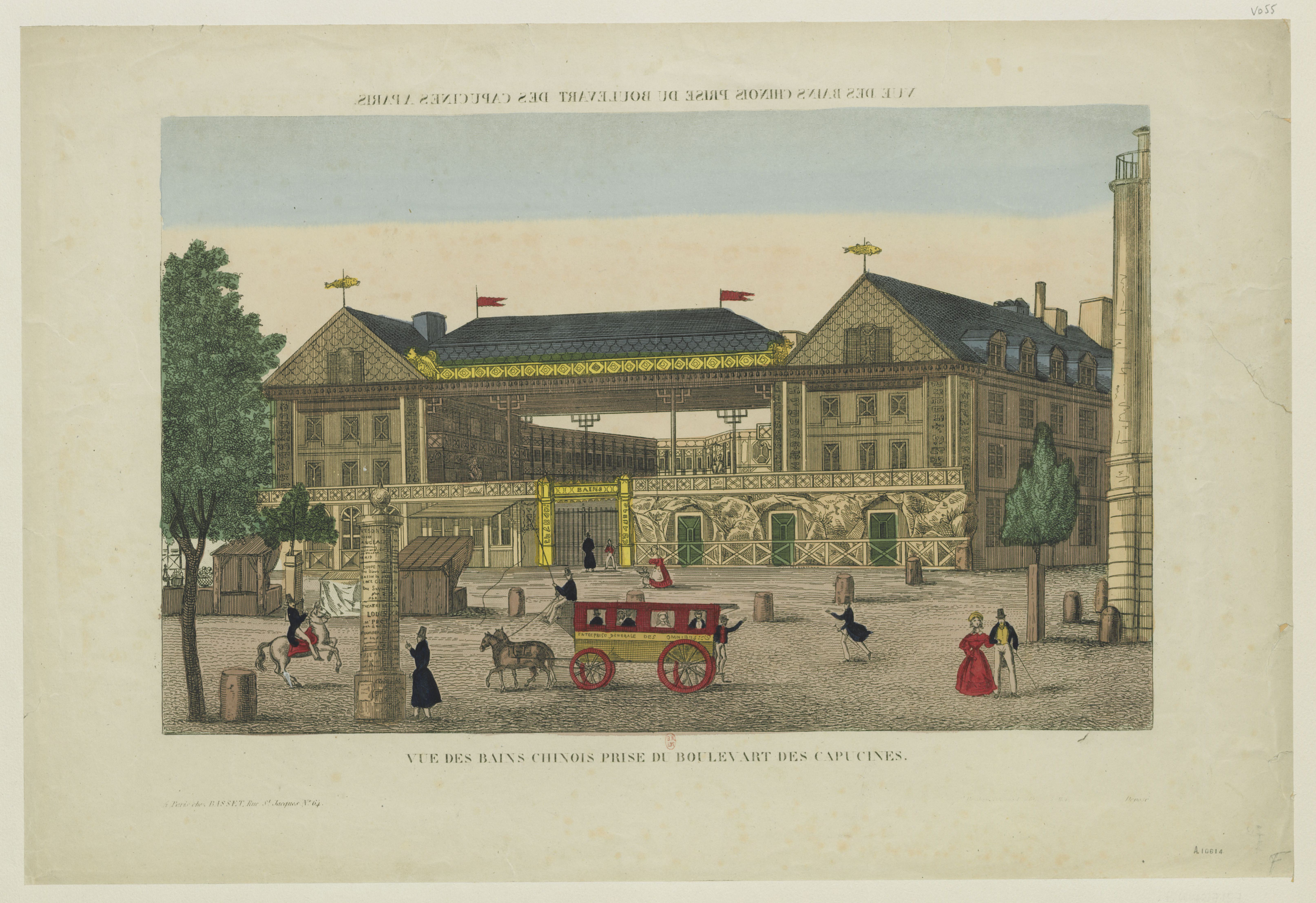 The bains chinois (=chinese baths) on the boulevard des Italiens in Paris (France).